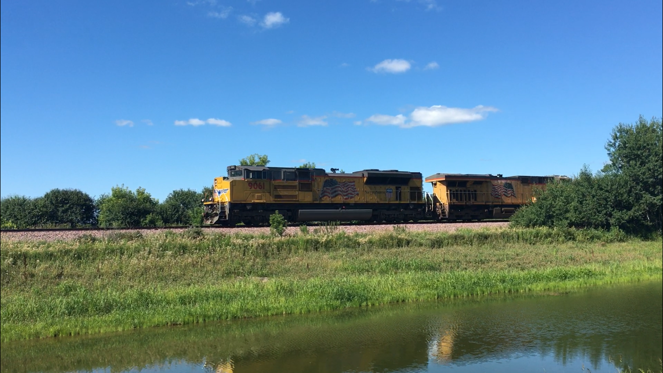 A UP SD70AH leads a westbound manifest on the Altoona Subdivision. shot near MP 11.7